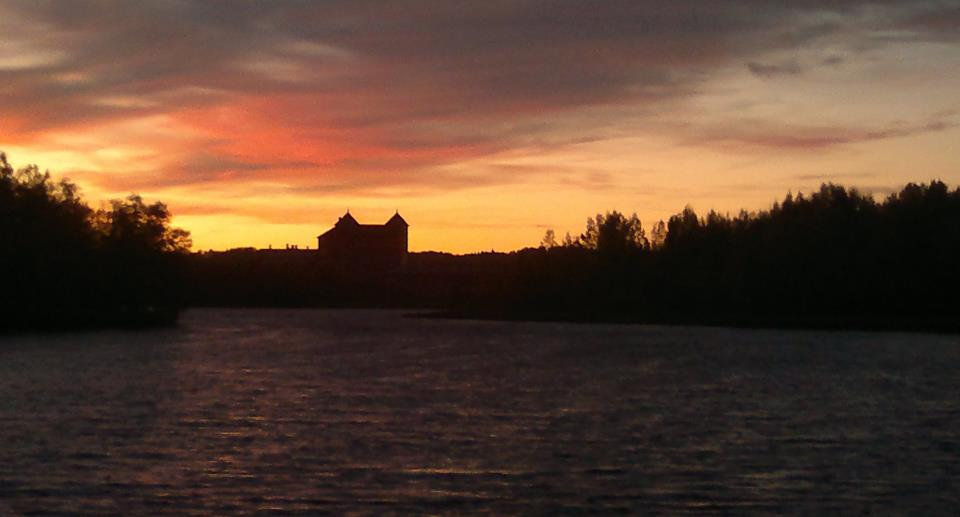 October sunset - Hämeenlinna